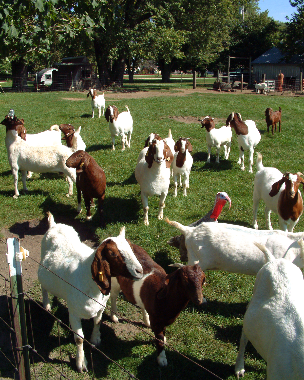 Non-human residents of the small town of Templeton, Indiana, including goats and a turkey. This photo was taken from Ann Street between Fleet and Oconomowoc streets, and looks northeast.